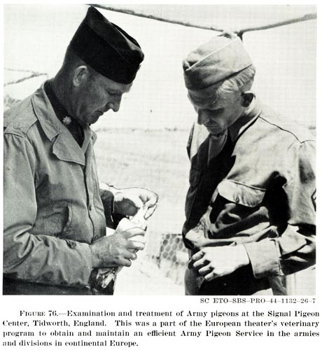 Examination and treatment of Army pigeons at the Signal Pigeon Center Tidworth, England, UK (United States Army Pigeon Service)